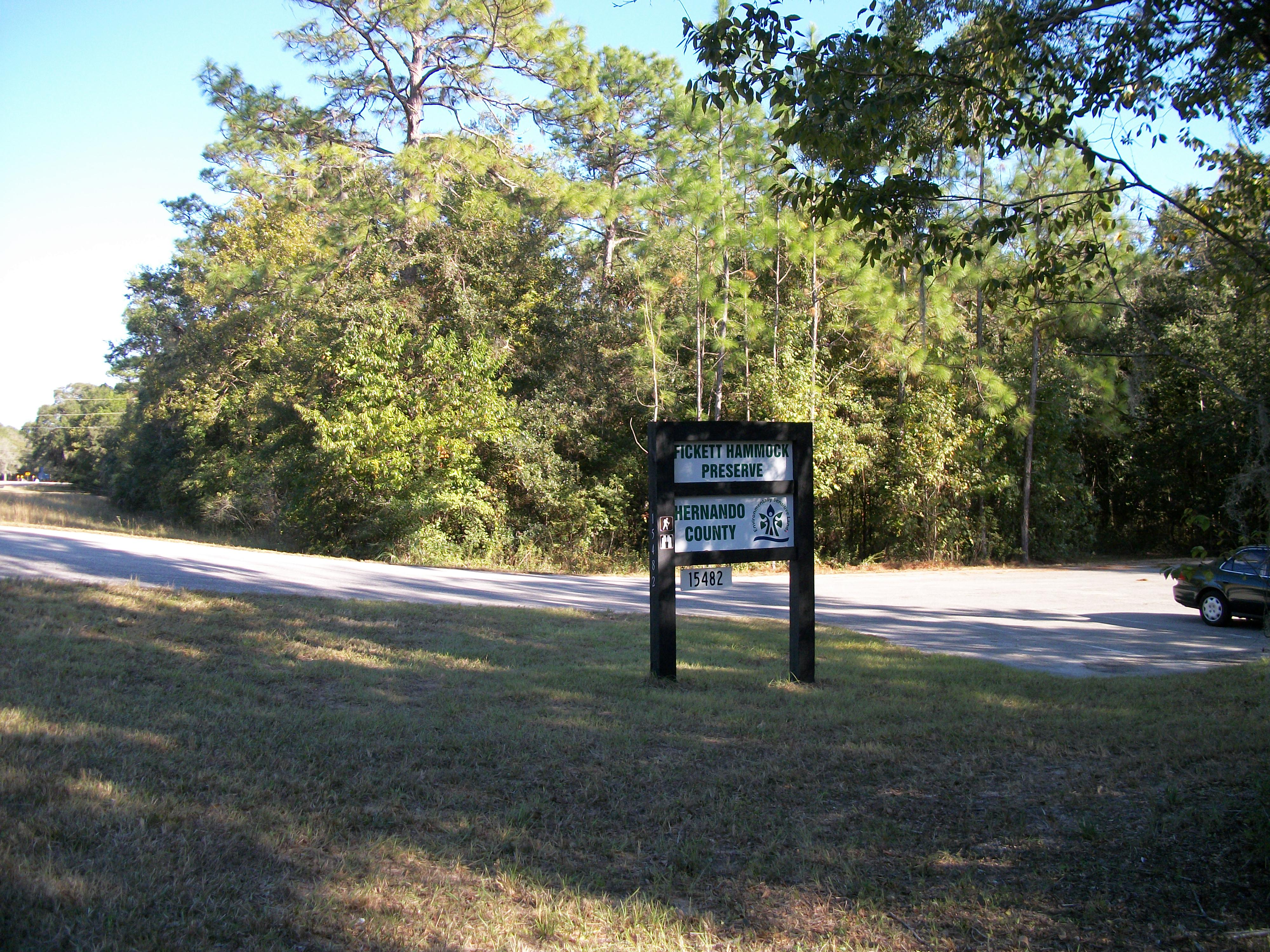 Sign for the Fickett Hammock Preserve on the south side of Hernando County Road 476 just west of the intersection of Hernando County Road 491 and the south/west terminus of the concurrency between the two roads in Northern Hernando County, Florida.